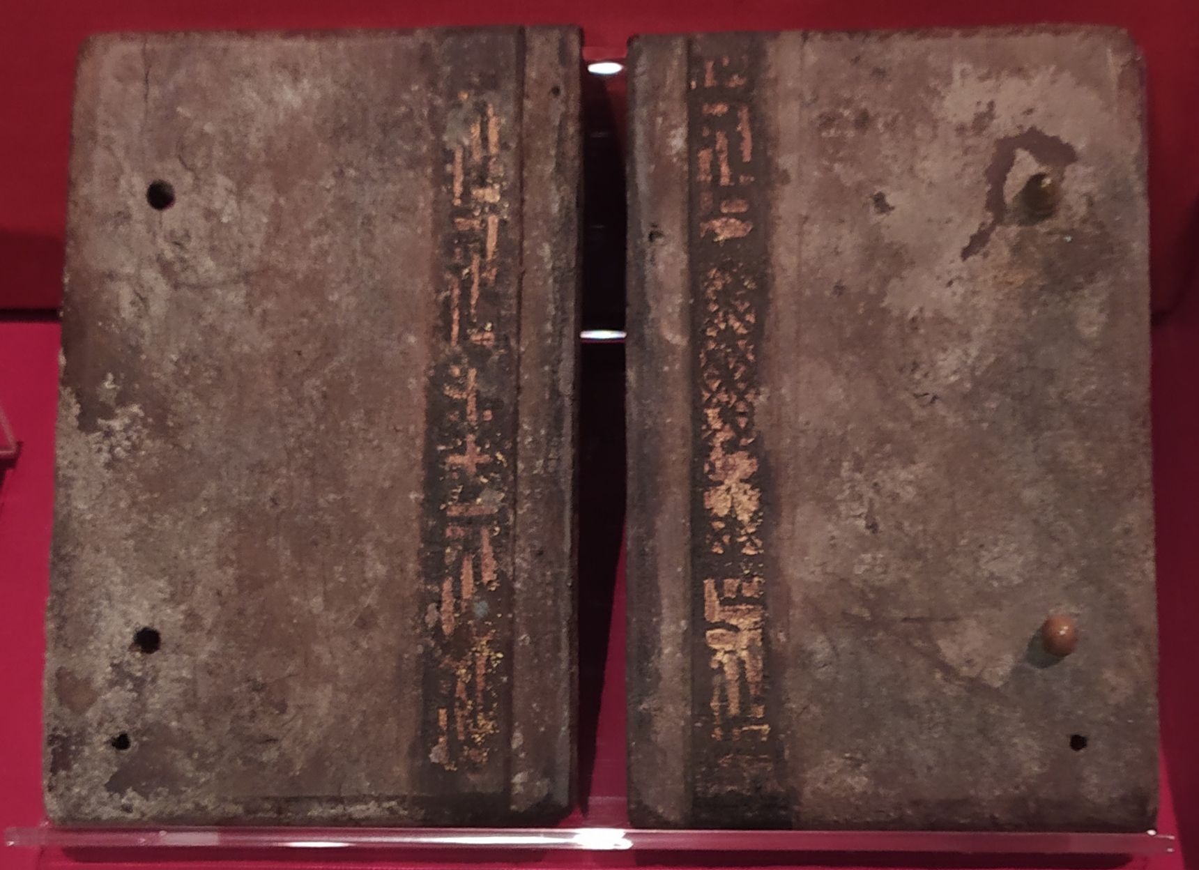 One of the earliest wooden boards for a binding. Egypt, probably third century AD. Oldest known example oh leather filigree work. Ivory pins to fasten leather thongs. Chester Beatty Library, Cpt 803.